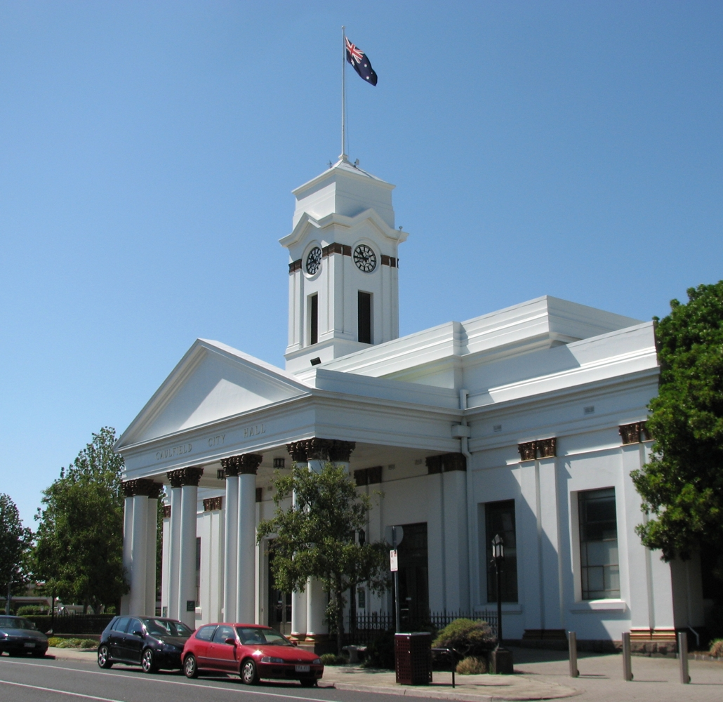 Glen Eira Town Hall (formerly Caulfield Town Hall), Caulfield, Victoria, Australia